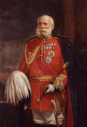 Portrait of Field Marshal Sir Patrick Grant